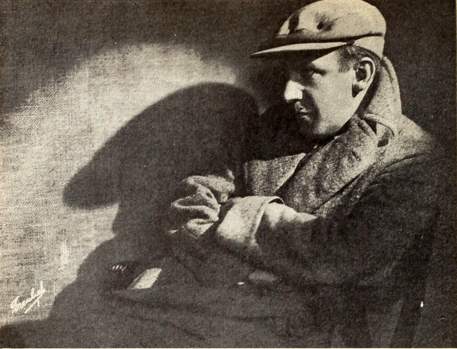 Promotional photo